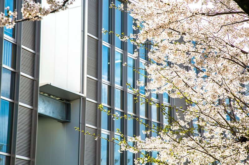 Primary building